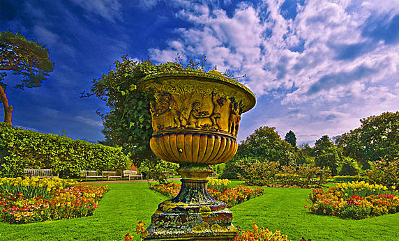 Nunsuch park 18 april 2009